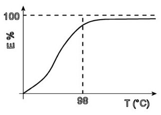 Acid dye - subclass II